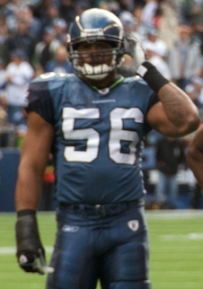 Seattle Seahawks linebacker Leroy Hill during the game against the Philadelphia Eagles on November 2, 2008 at Qwest Field.